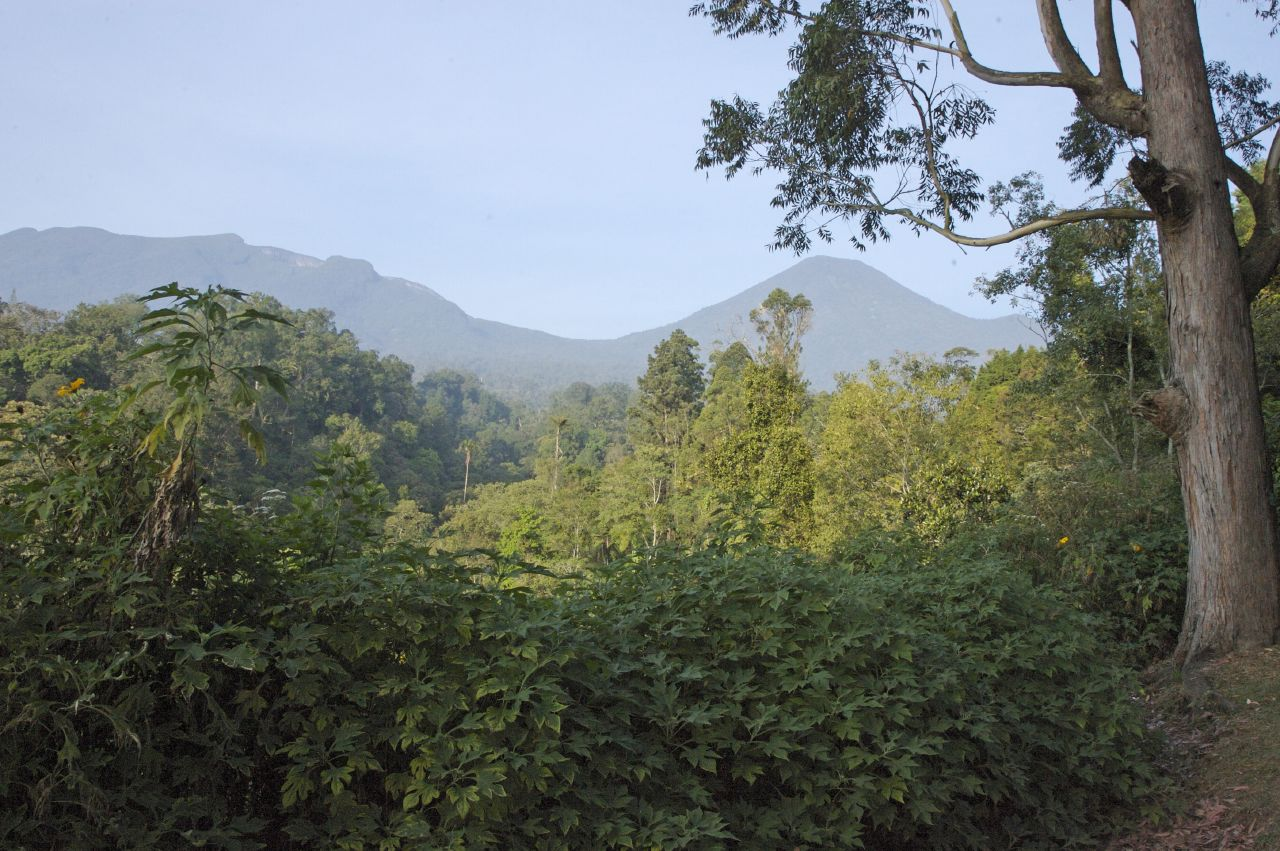 View of National Park with Gunung on left and Pangrango center right 11th. August 2007 Location : Gunong Gede, Java, Indonesia